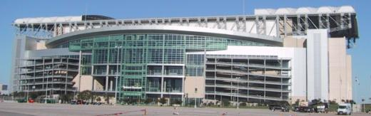 22:31, 29 September 2003 . . WhisperToMe . . 520×163 (19,541 bytes) (This is a picture of Reliant Stadium)